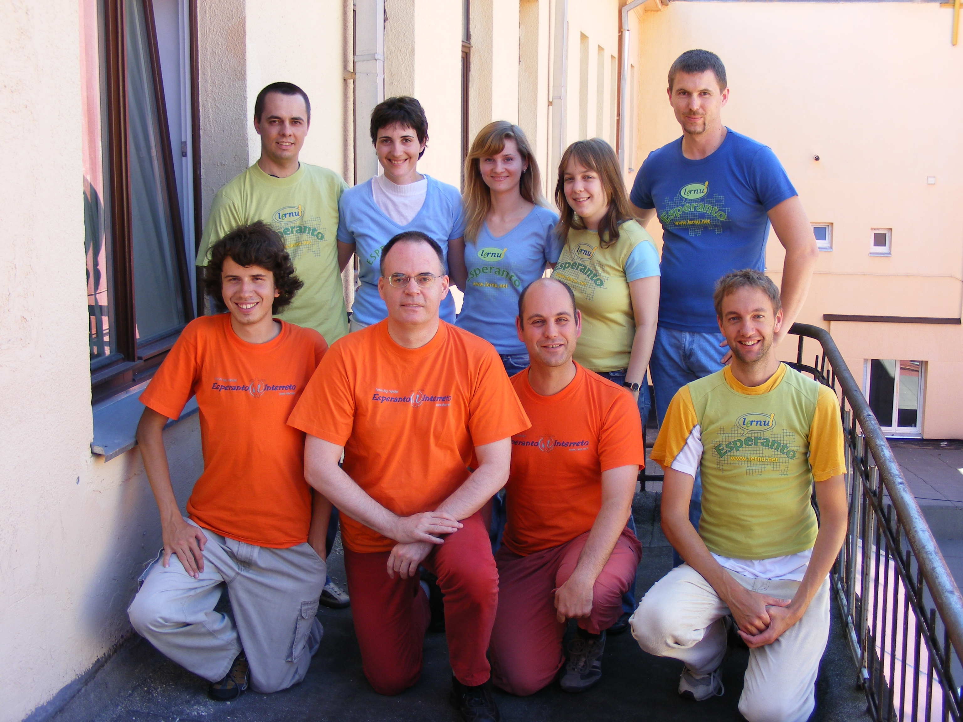 A meeting of E@I activists in Kaunas in mid-July 2007.